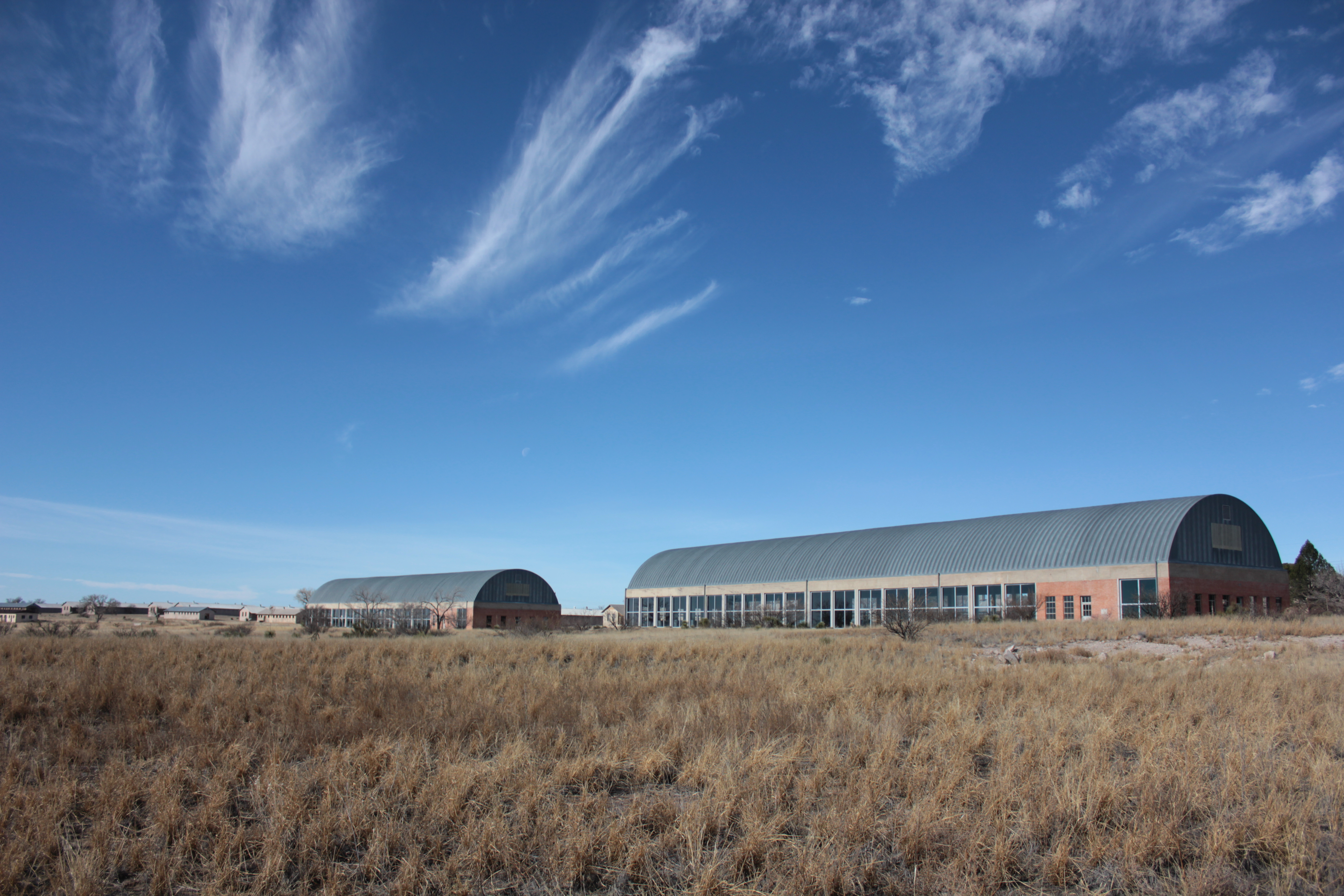 The Chinati Foundation / La Fundación Chinati, Marfa, Texas